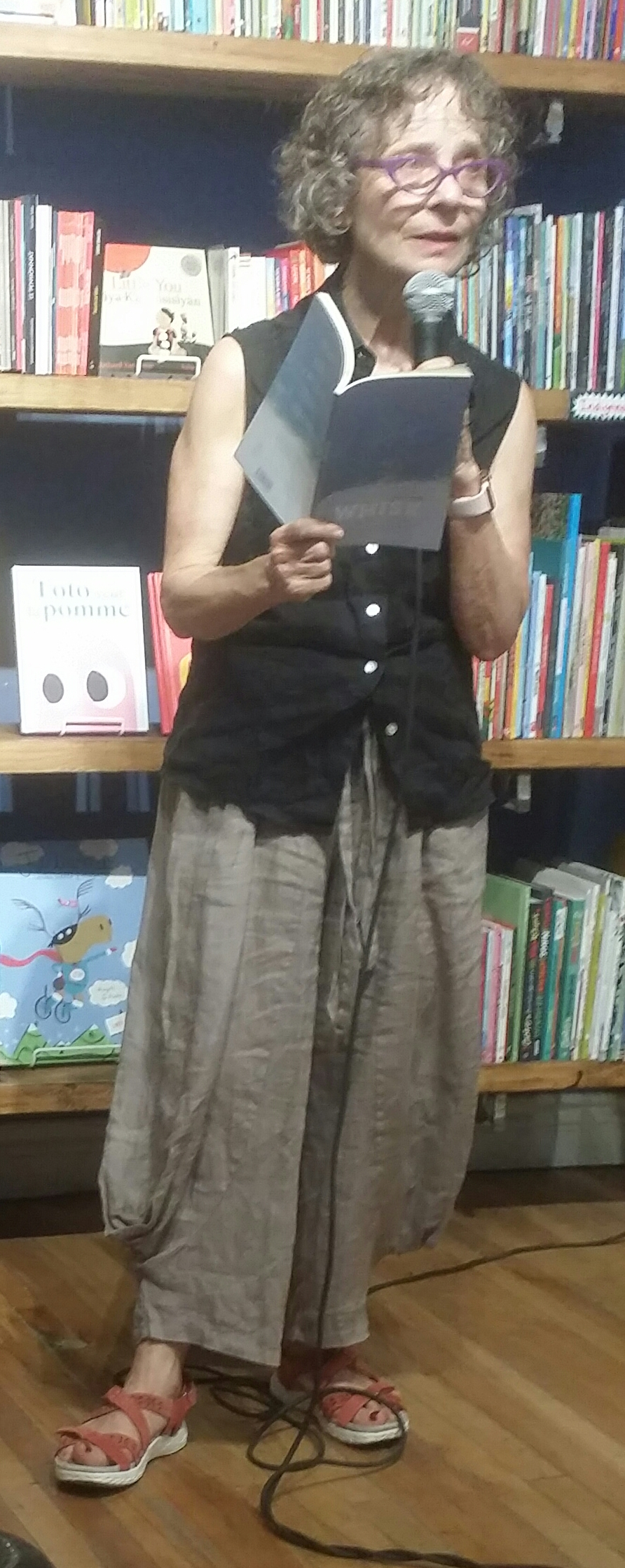 Mary Di Michele photographed in Montréal , Québec , Canada outside the Drawn & Quarterly South Bookstore.